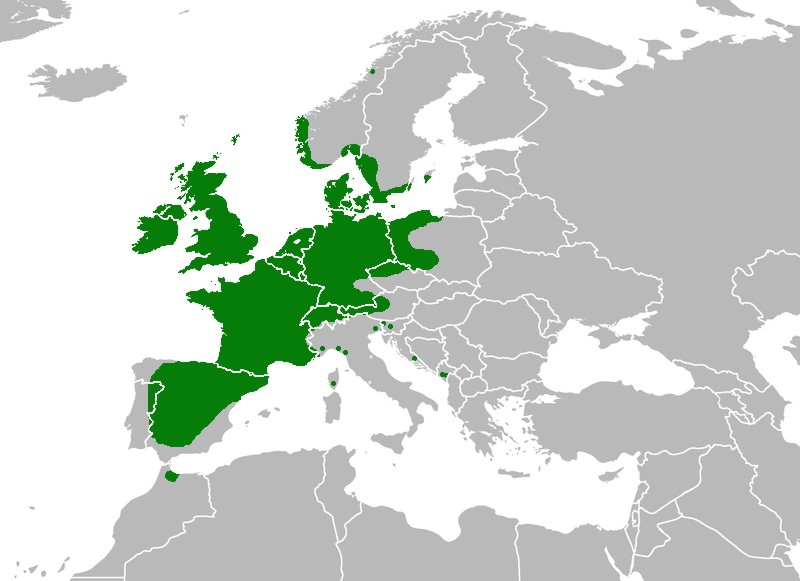 Distribution map of Lonicera periclymenum. Basing on (Virtuella Floran)